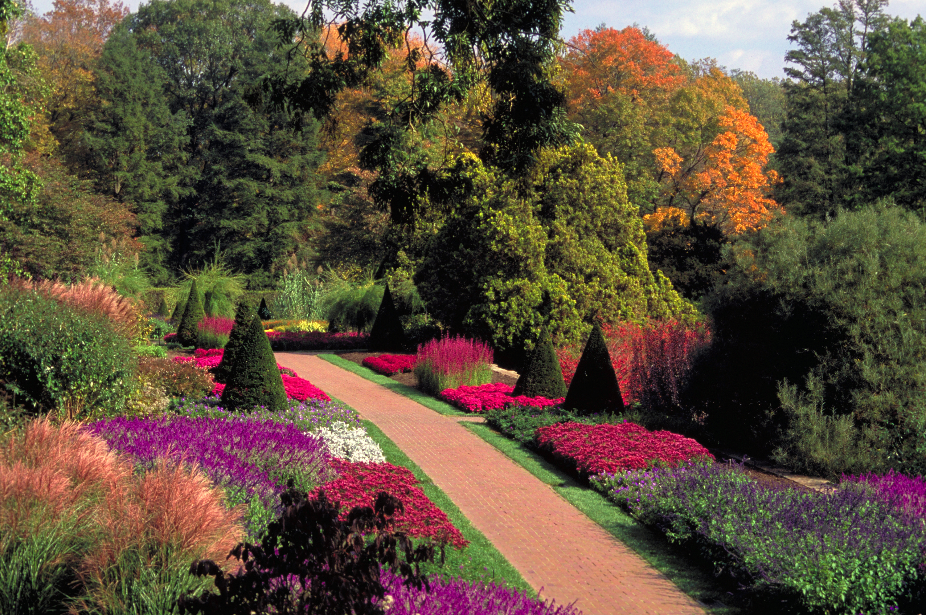 Longwood Gardens in Chester County, Pennsylvania. From the website of the Federal Highway Administration, where they declare that it is public domain